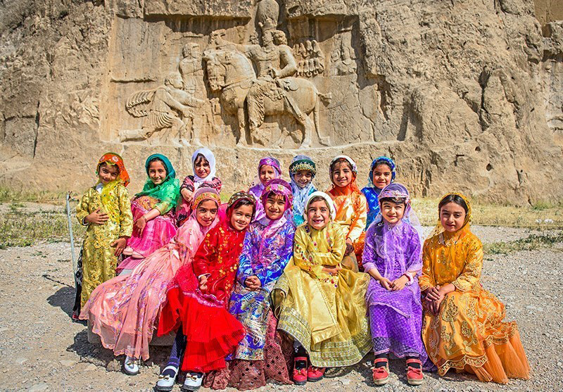 Basseri kids in traditional dress in Naqsh-e Rostam, Fars, Iran